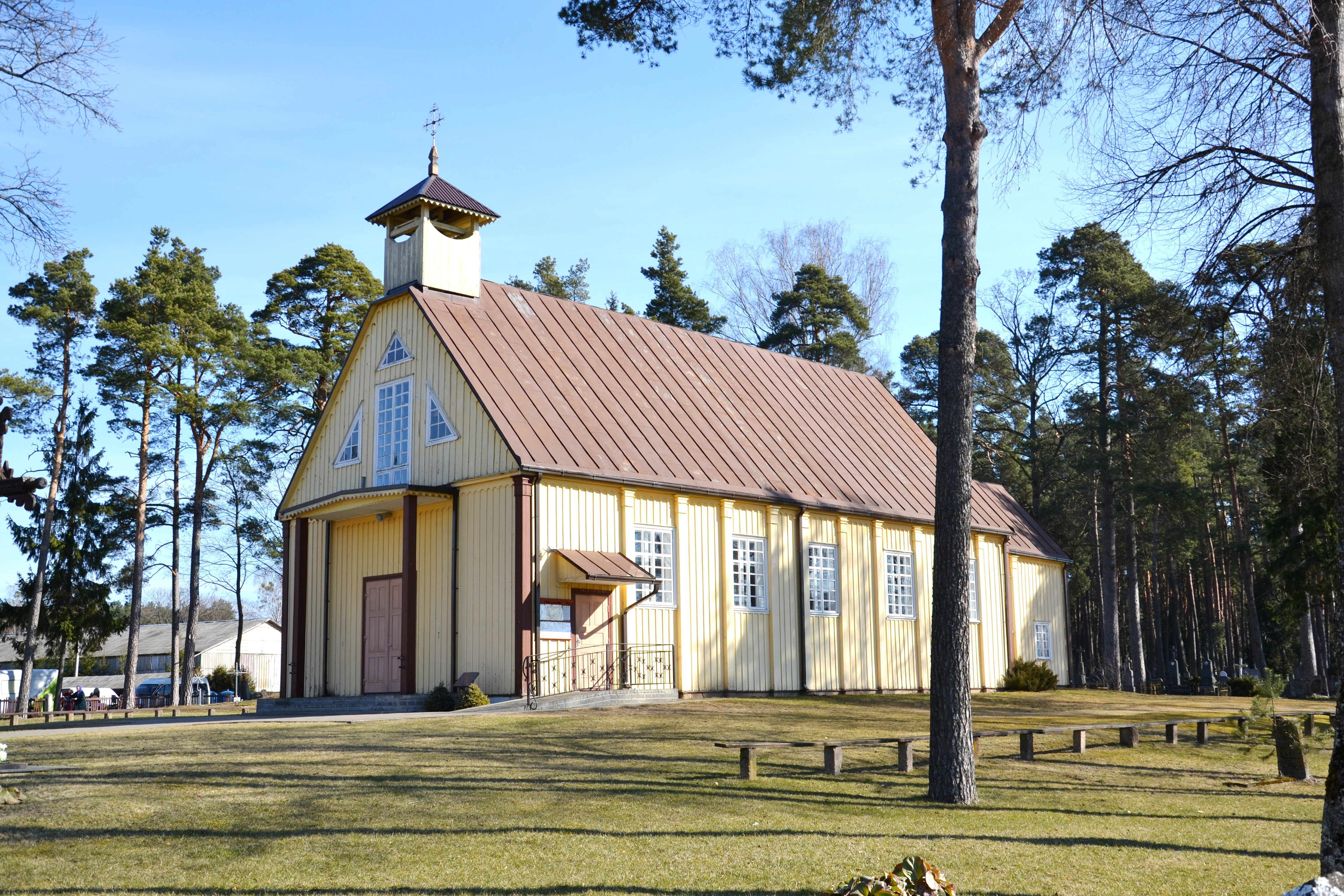 Lekėčiai Roman Catholic Church, Šakiai district, Lithuania